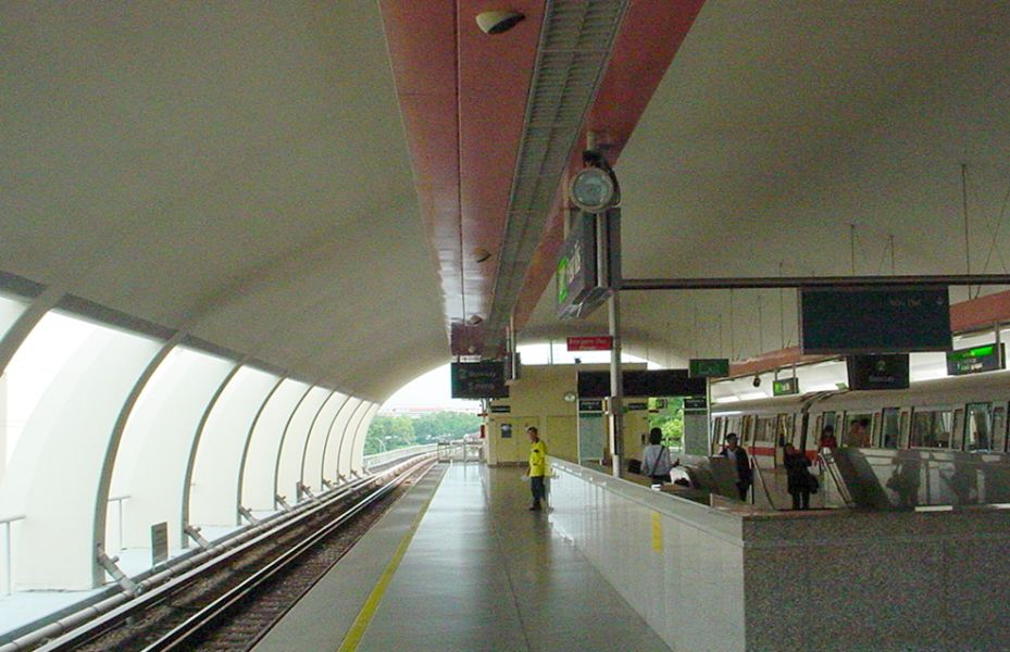 Pasir Ris MRT Station on the East West Mass Rapid Transit Line in Singapore.